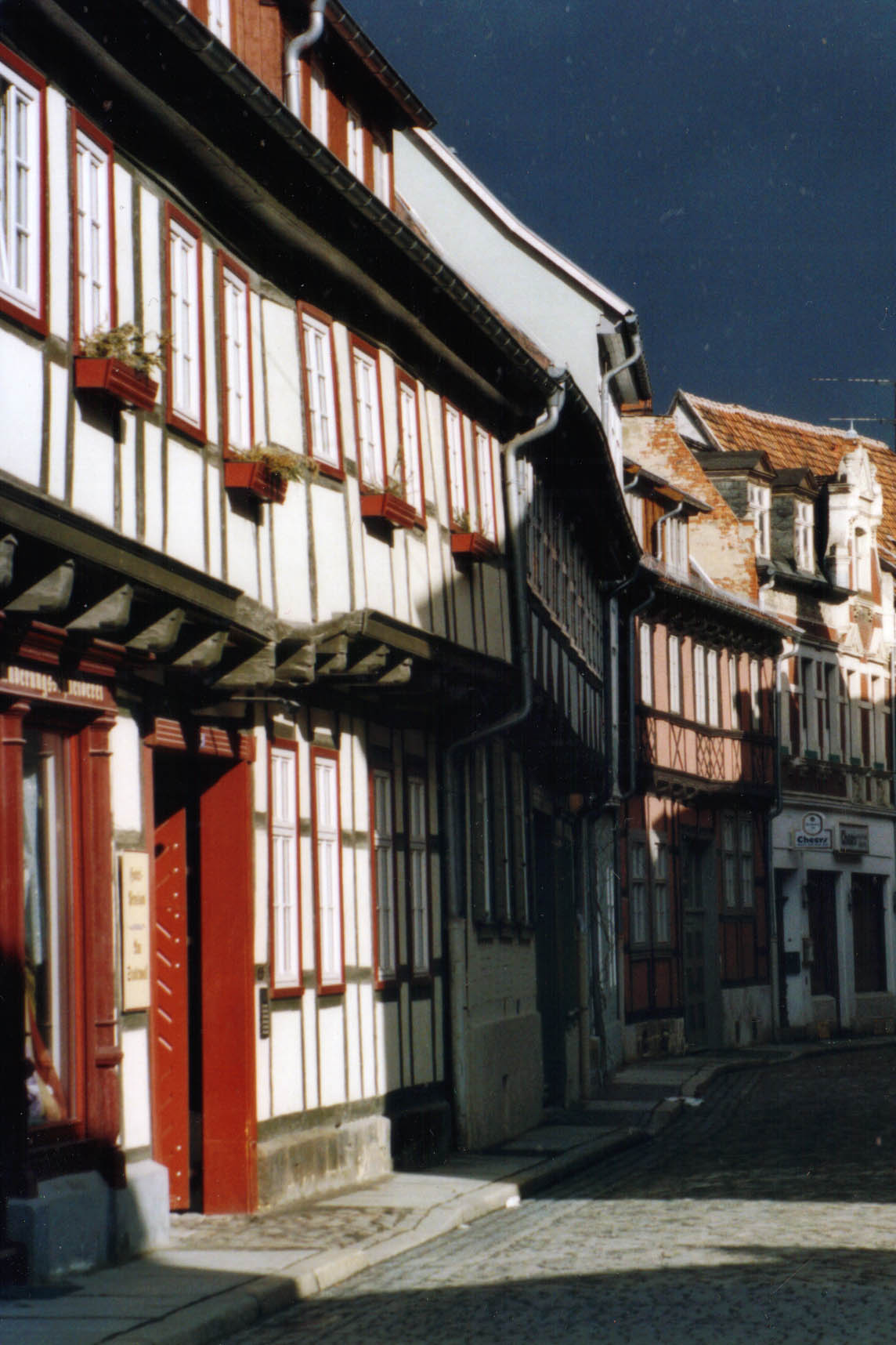 Cobblestone street called "Hohe Strasse" in Quedlinburg, Germany